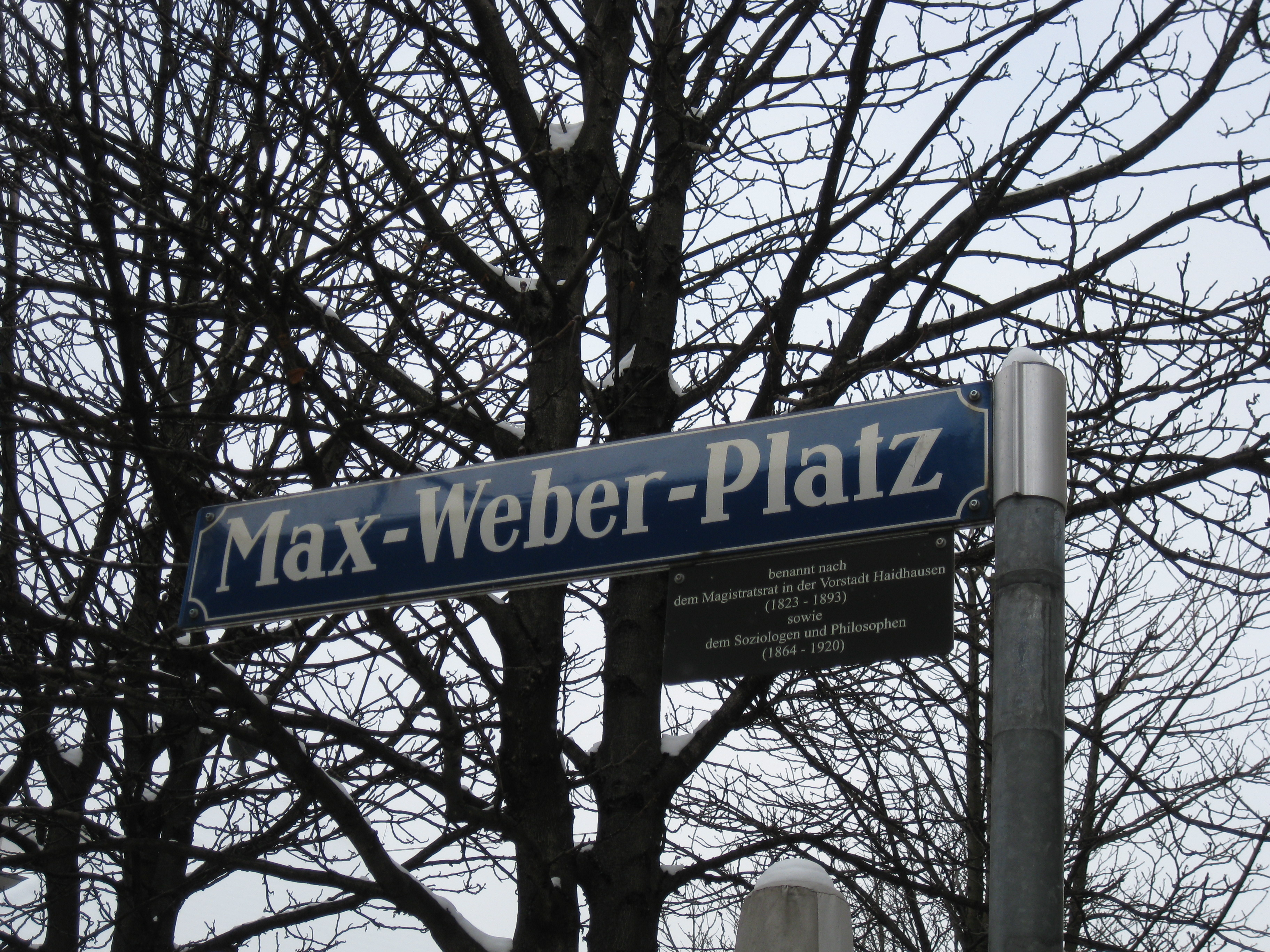 Street sign of Max-Weber-Platz, Munich, named after two different persons